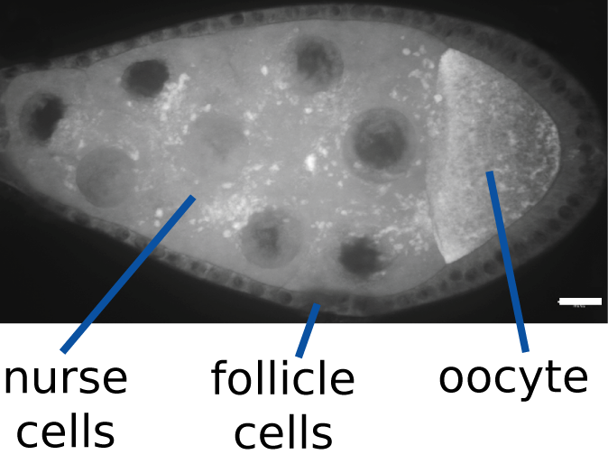 Ribonucleoprotein particles (GFP-Imp) in the Drosophila melanogaster egg chamber, being transported from the nurse cells to the oocyte. Scale bar indicates 10µm.